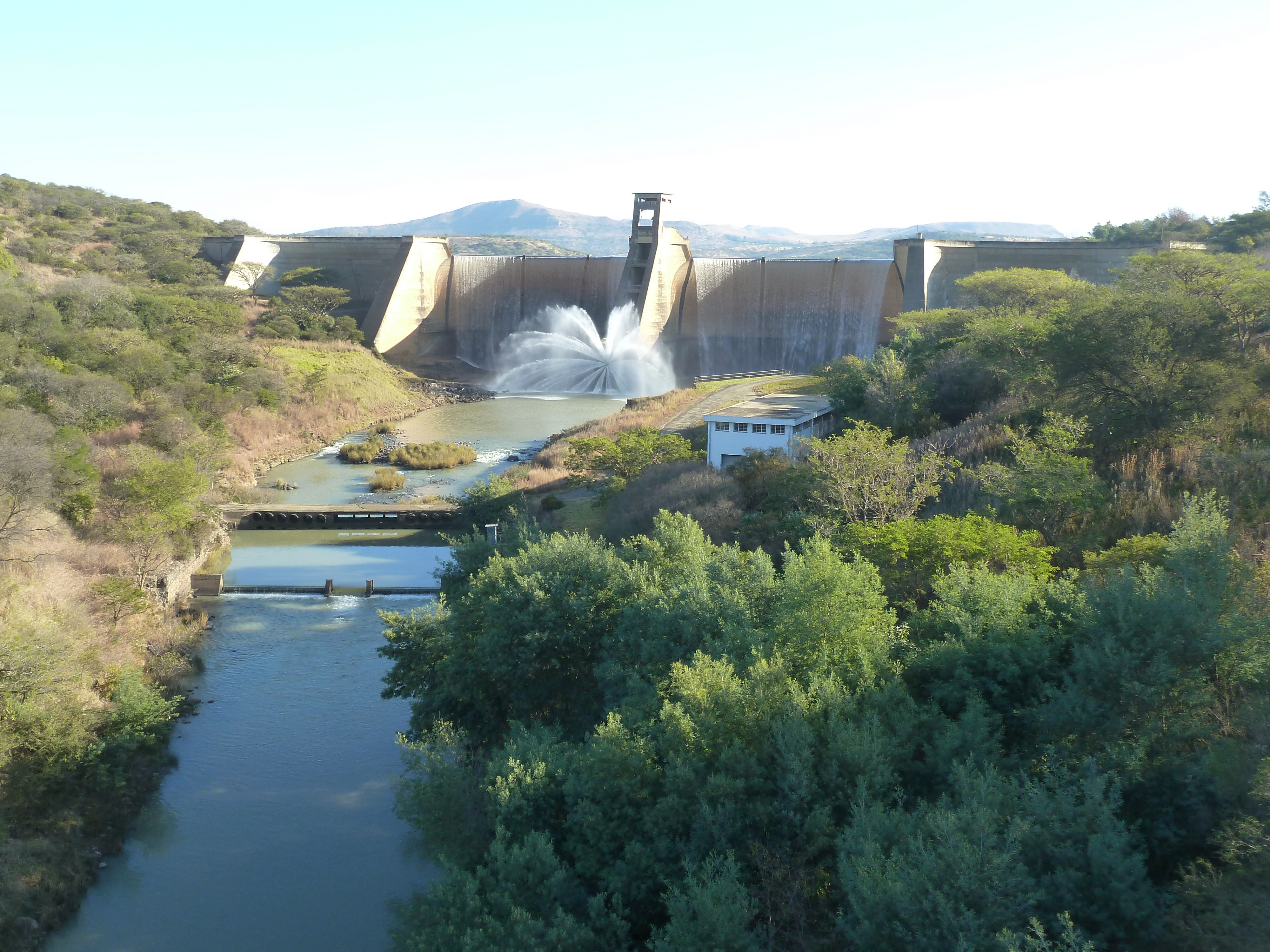 View on the Wagendrift dam wall in the Bushman's River in KwaZulu-Natal, South Africa